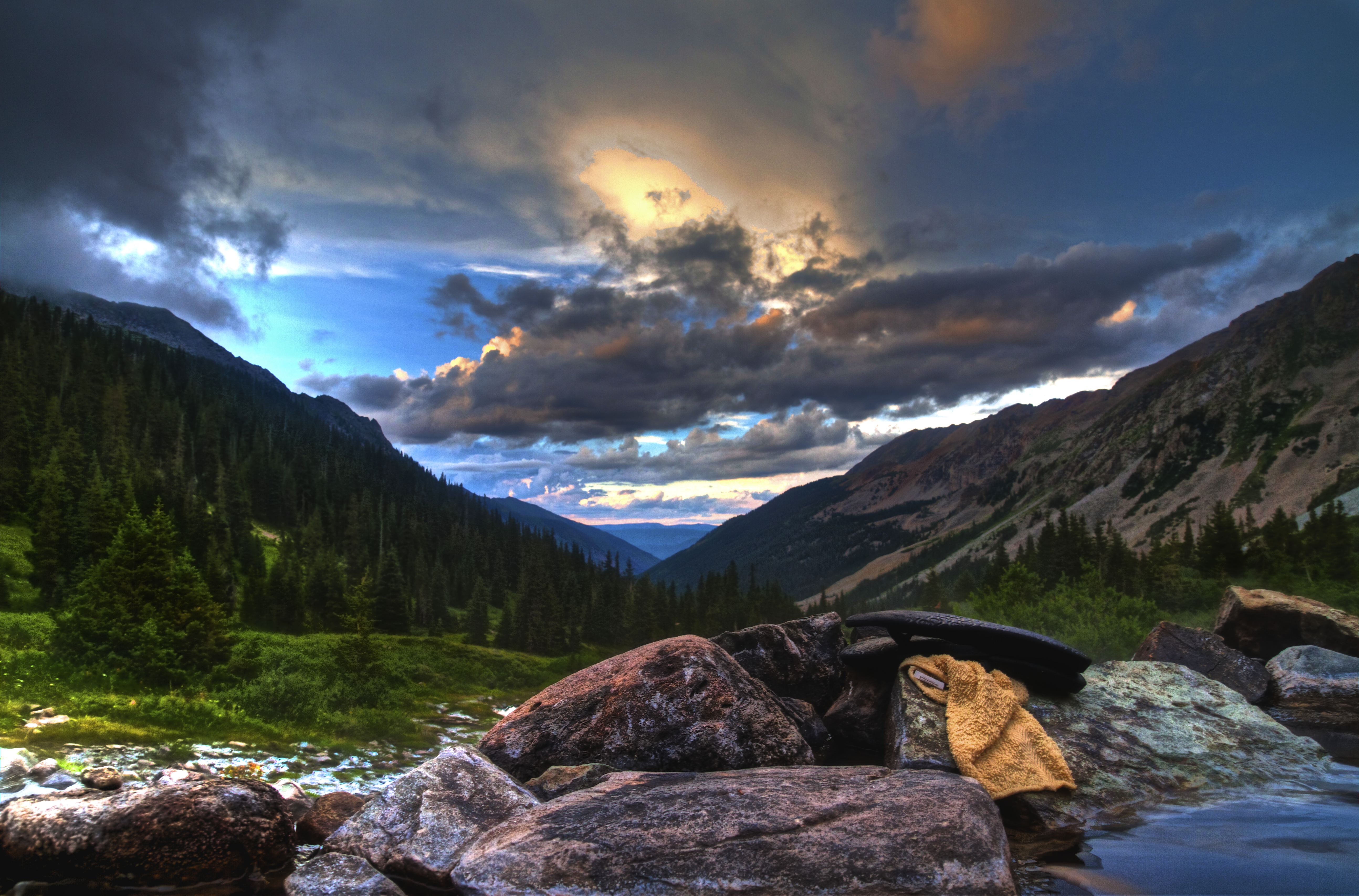 The best health club ever: 1: 8.5 mile hike uphill 2 cliff bars and dehydrated meals 3. Soak in NA's highest hotspring-above 11k feet 4. Camelback with a potent mixture of Jack and Ice cream 5: Therapeutic thermarest Hells ya! The Conundrum hot springs are the highest around and make for one wicked awesome backpack trip. This was snapped from the pool. Its literally the perfect temp and we relaxed for 4 hours in it after the hike up. If anyone backpacks at all this is definitely the highlight of my summer. The springs themselves are pretty much right between Aspen and Crested Butte CO and had some of the best scenery I've yet to see.